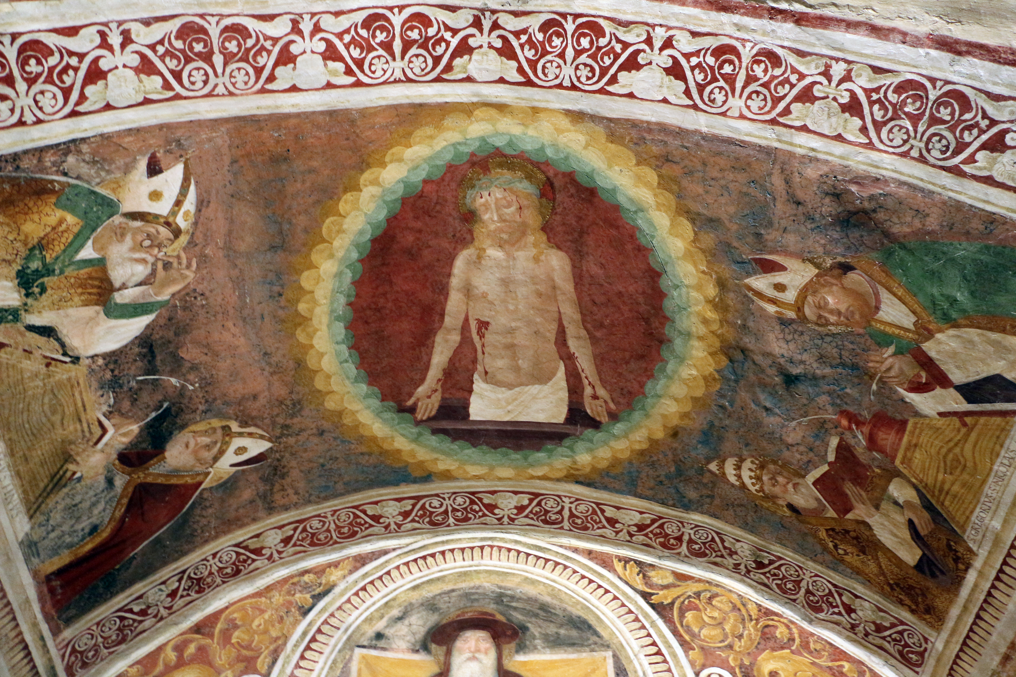 San Michele al Pozzo Bianco - Crypt